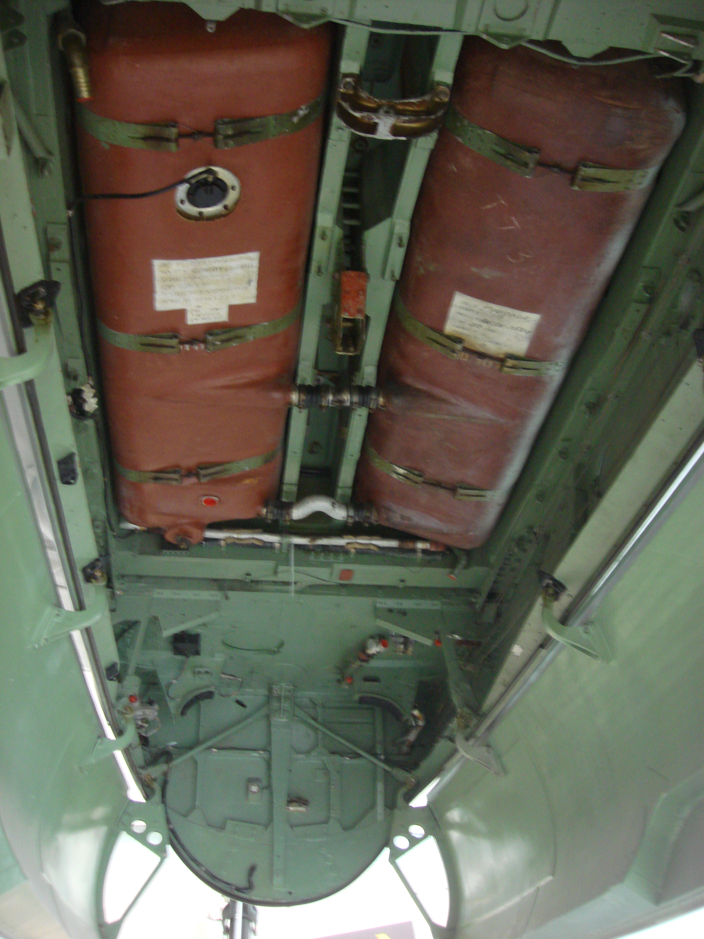 De Havilland Mosquito bomb bay at the RAF Museum London